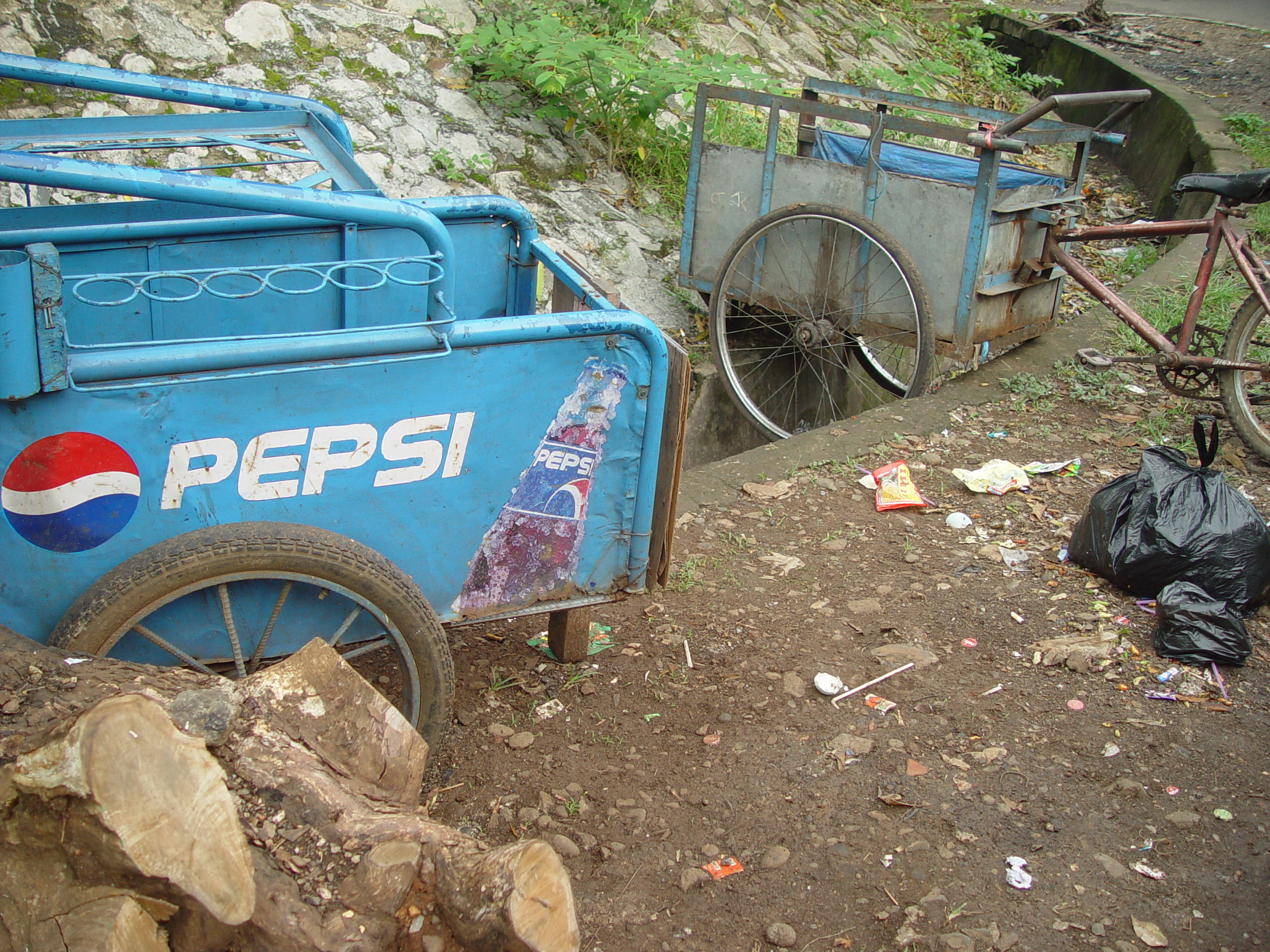 Bike vehicles, Jakarta Indonesia.